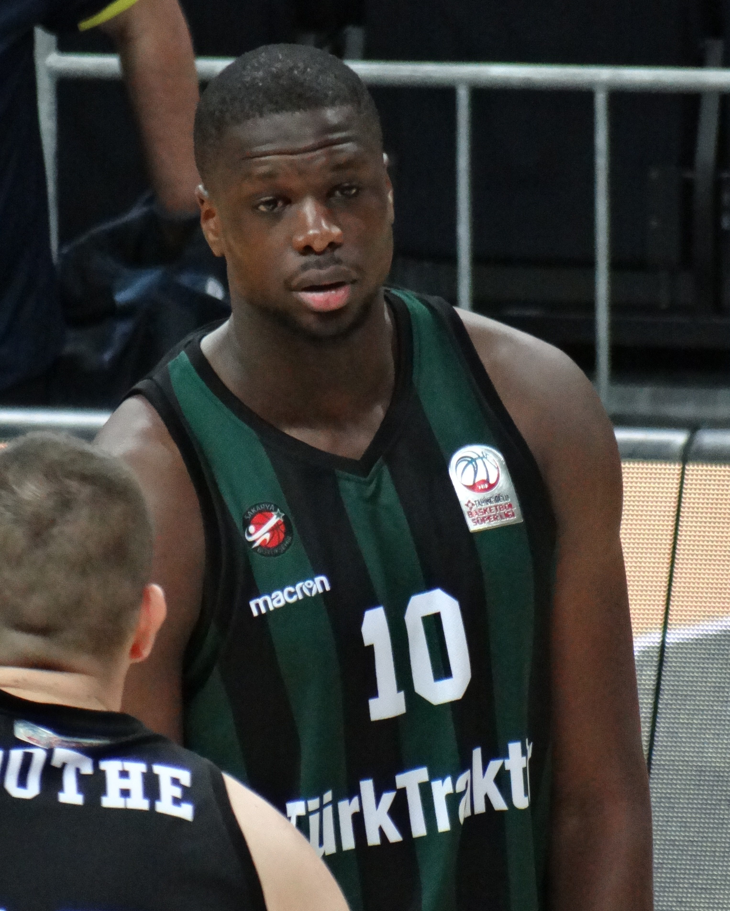 Moustapha Fall 10 Sakarya Büyükşehir Belediyespor 20180107